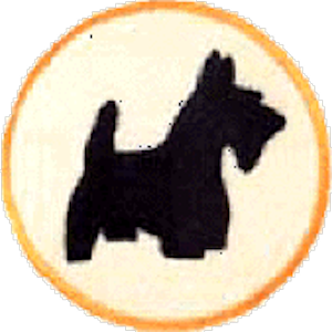 Emblem of the 372d Bombardment Squadron (World War II)